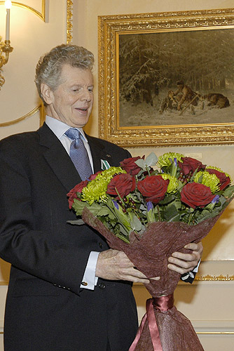 Pianist Van Cliburn, 20 September 2004, receiving the Order of Friendship.